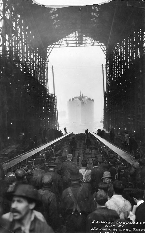 Launch of SS West Loquassuck at the Skinner & Eddy Plant No. 1, Seattle Washington.